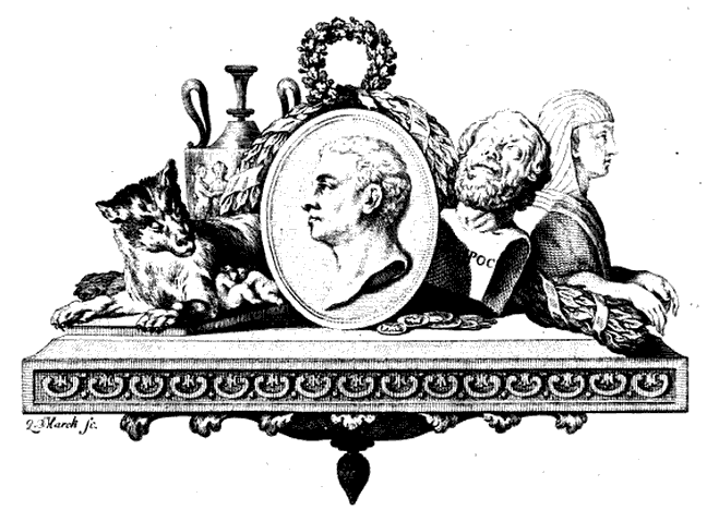 Figurehead from the title page of Geschichte der Kunst des Alterthums: Band 1 (1776 ed.) by Johann Joachim Winckelmann. A pioneer of modern archeology, Winckelmann is center, surrounded by the Sphinx and an Etruscan vase in the background, and Homer, and Romulus and Remus and the she-wolf in the foreground. Scanned by User:InformationvsInjustice